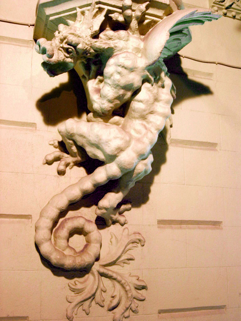 Drac alat (winged dragon, valencian version of griph) at the fron of a building located at Sorní street in València city.